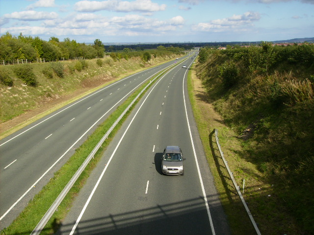 The A64 Malton bypass looking towards Scarborough. The photo was taken from the B1257 road bridge.